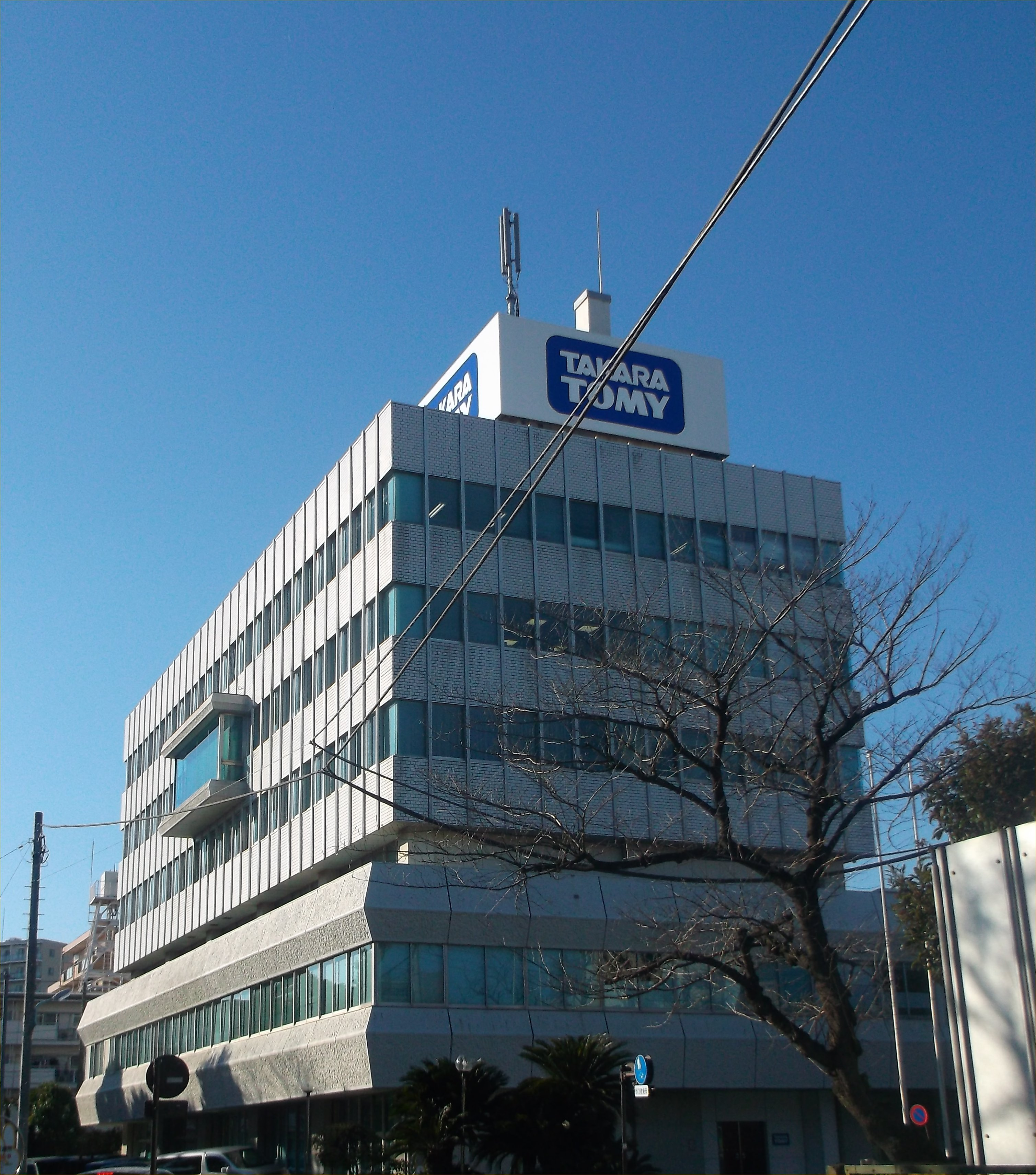 A photo of TAKARA TOMY Aoto office,Aoto,Katsushika-ku,Tokyo,Japan.